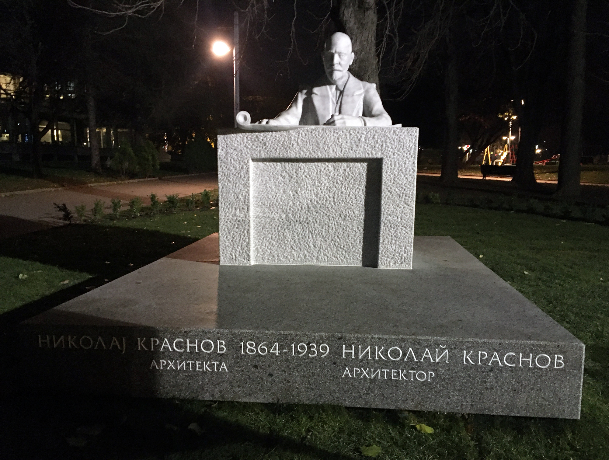 Monument to architect Nikolay Krasnov in Belgrade